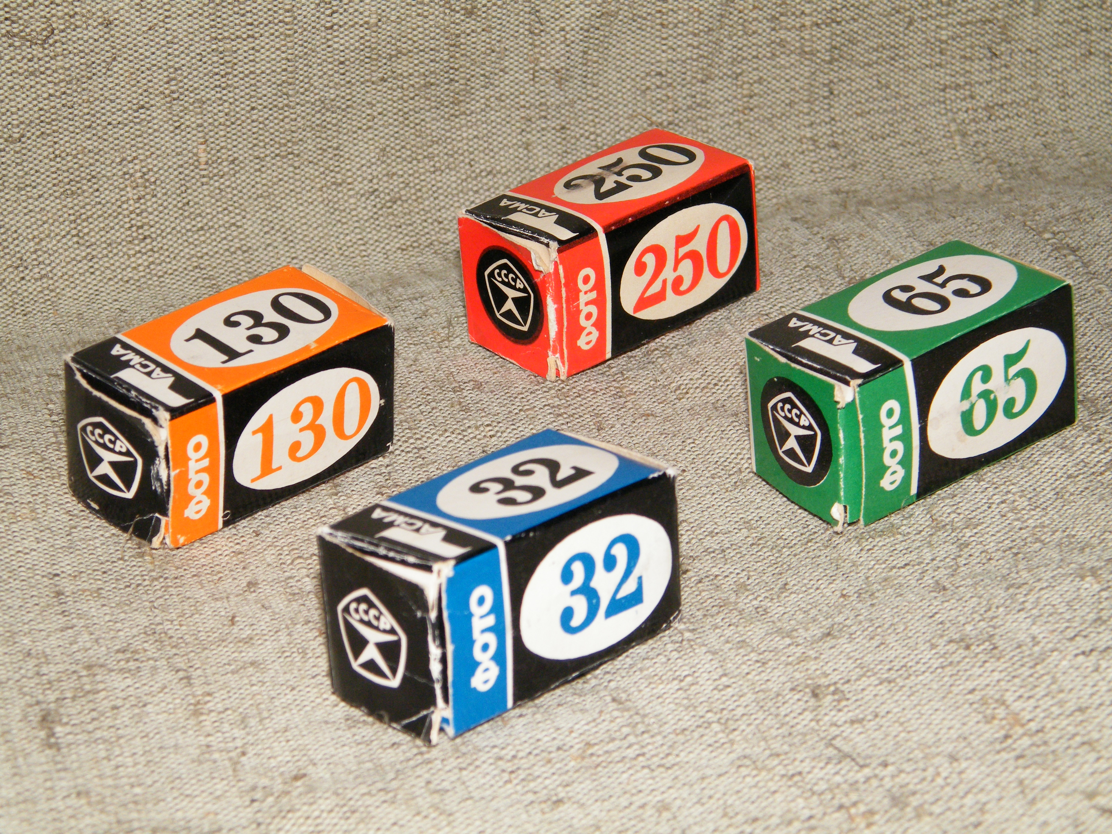 Фото-32-65-130-250